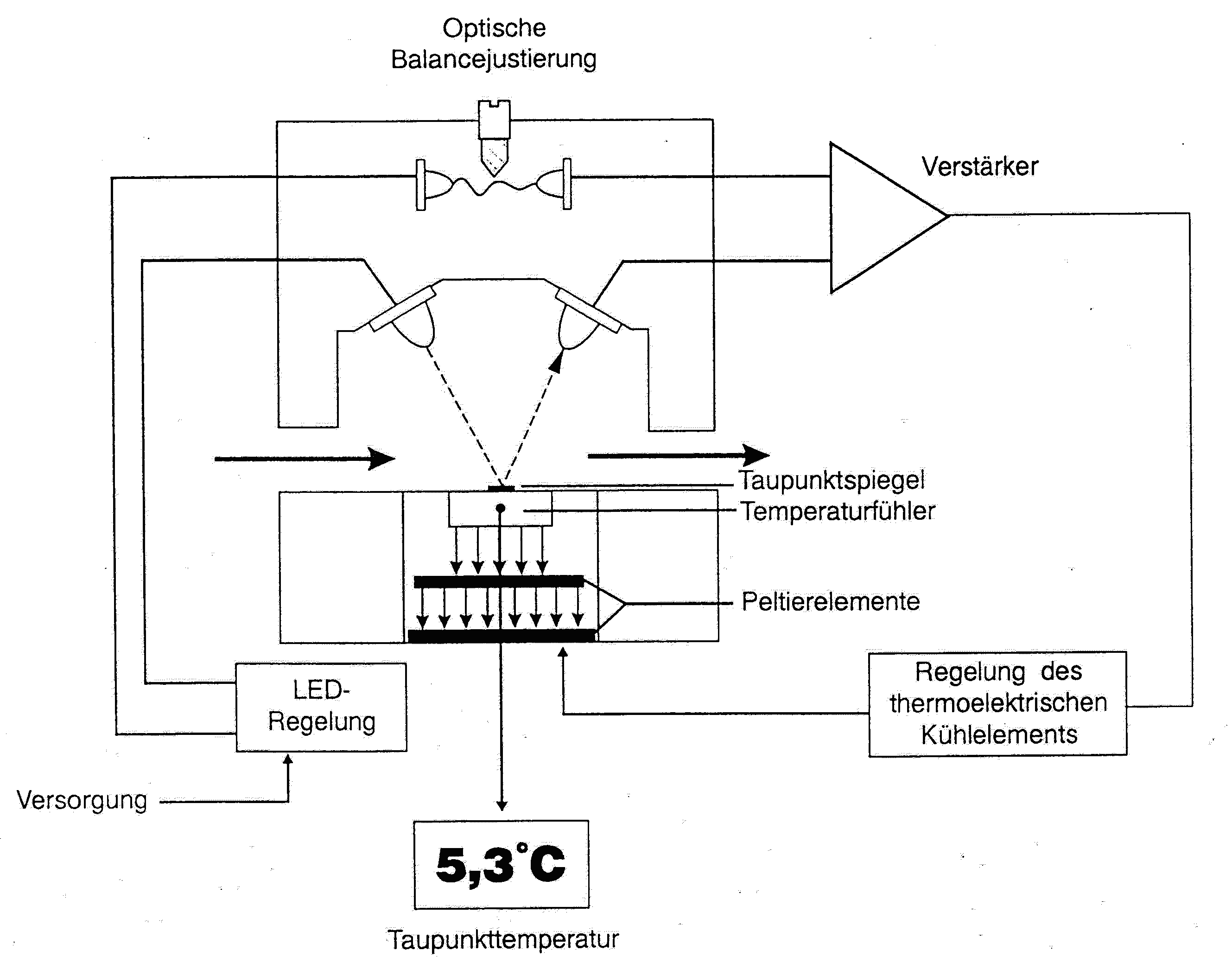 Schematic diagramm of a modern dewpoint mirror